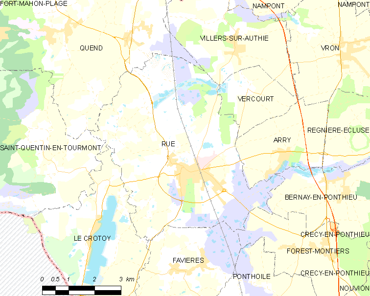 Map of French municipality Rue